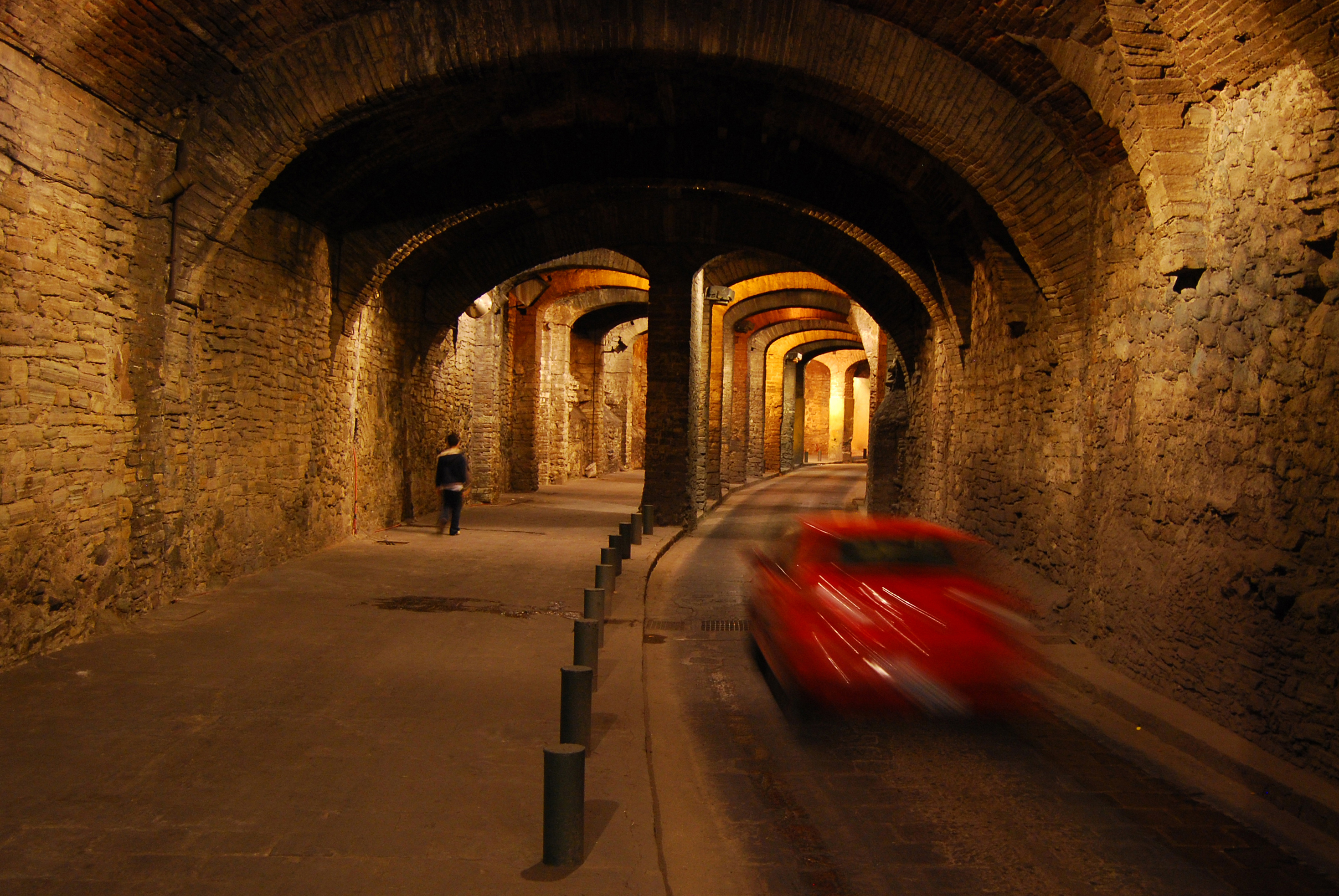 A car and pedestrian pass in a tunnel under Guanajuato City, showing the clash of modern and history